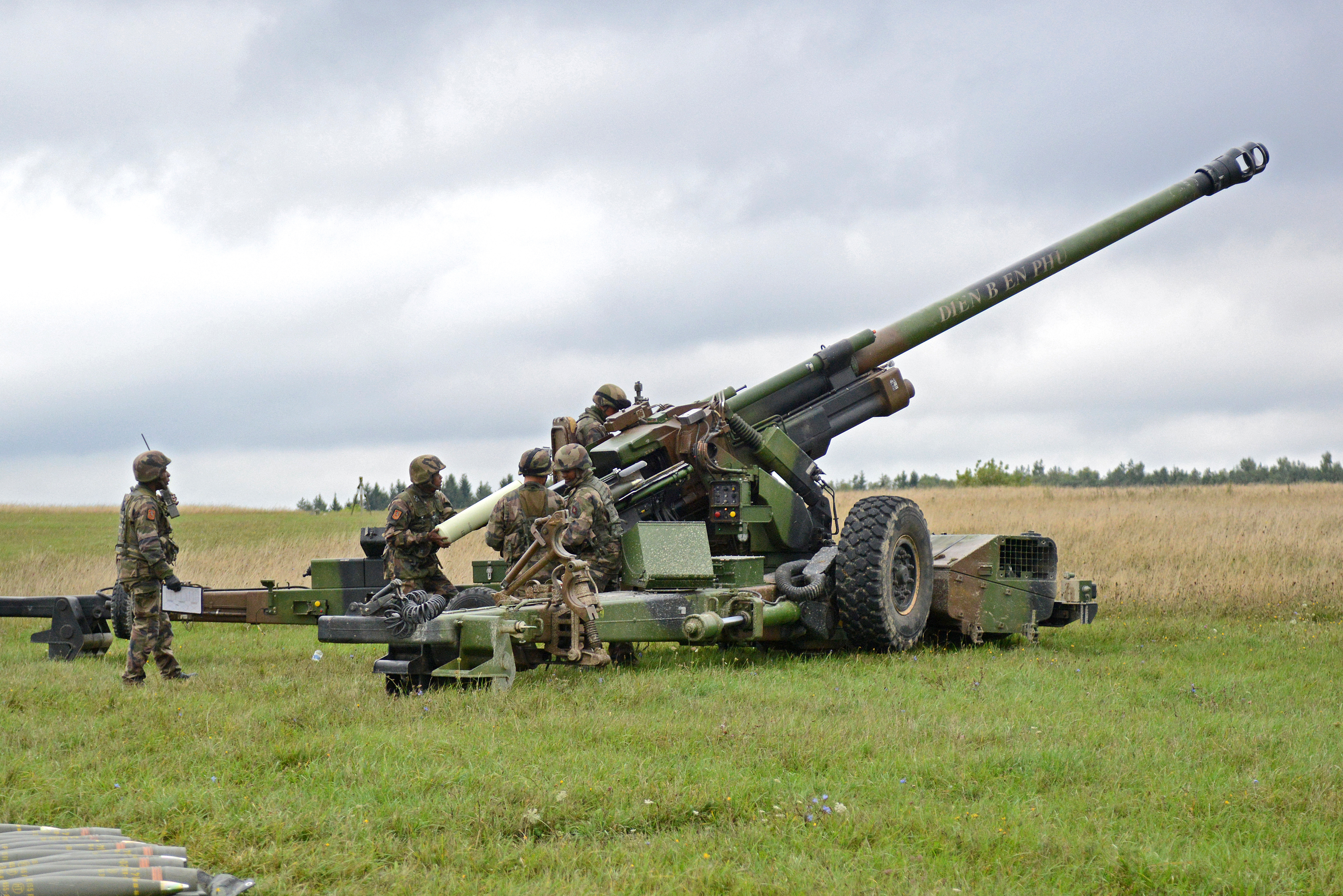 French soldiers fire a French TRF1 155 mm self-propelled howitzer of 3rd Marine Artillery Regiment as part of a live fire exercise during Combined Endeavor at the Joint Multinational Training Command's Grafenwoehr Training Area, Germany, Sept. 17, 2013. Combined Endeavor is an annual command, control, communications and computer systems (C4) exercise designed to prepare international forces for multinational operations in the European theater. (U.S. Army photo by Gertrud Zach/Released)